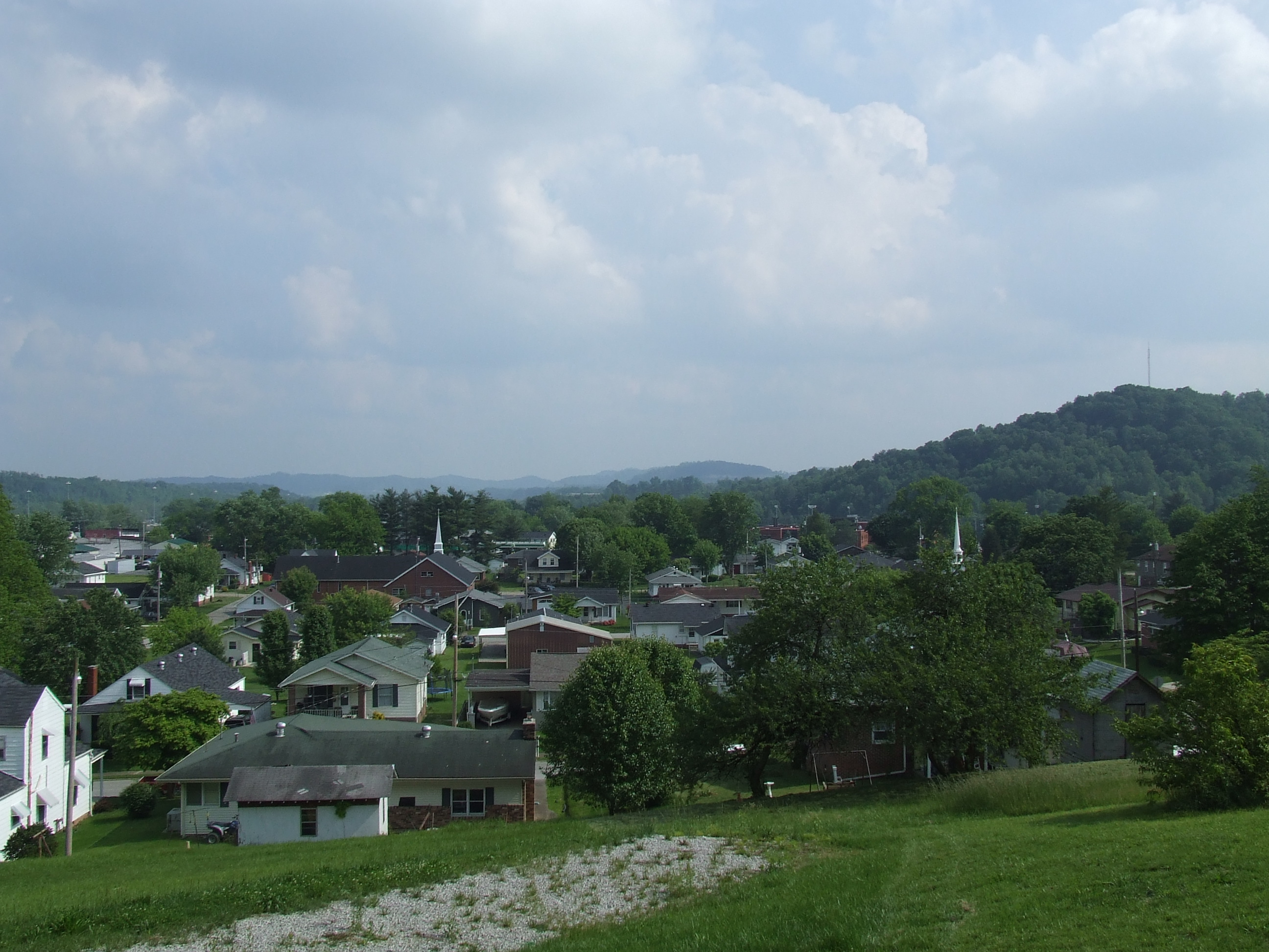 This is a photo from the top of 14th st. hill in Corbin, Kentucky.